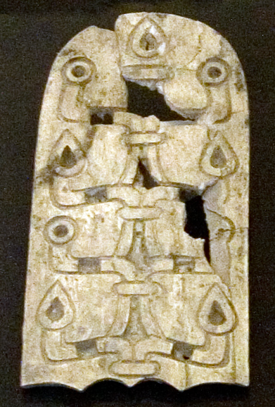 Urartian Tree of Life, under the common bell-shape (similar shape for some other regional trees of life); (probably equal to a plant garden lattice-work).